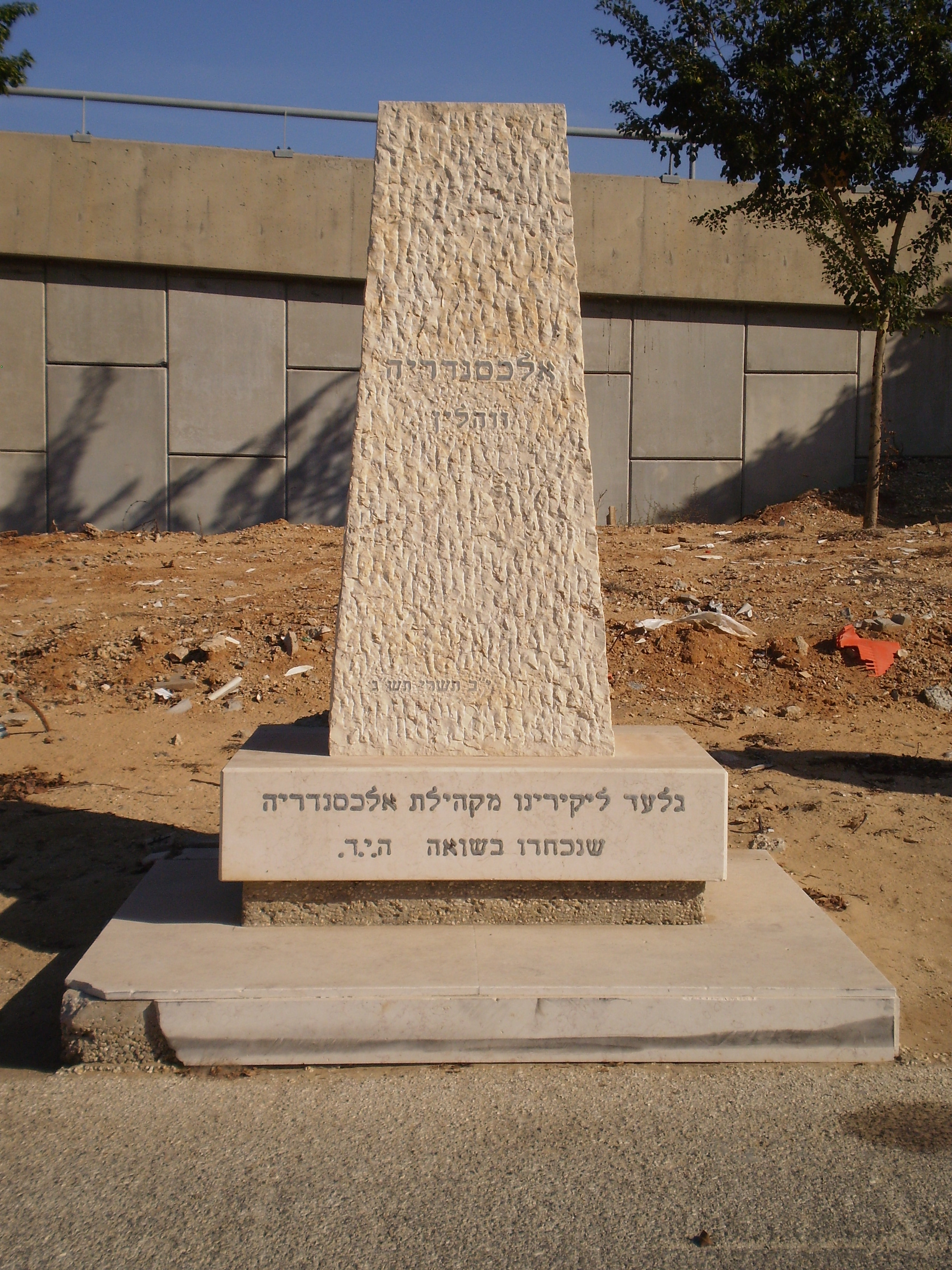 Oleksandriia Jewery Holocaust memorial at Holon Cemetery